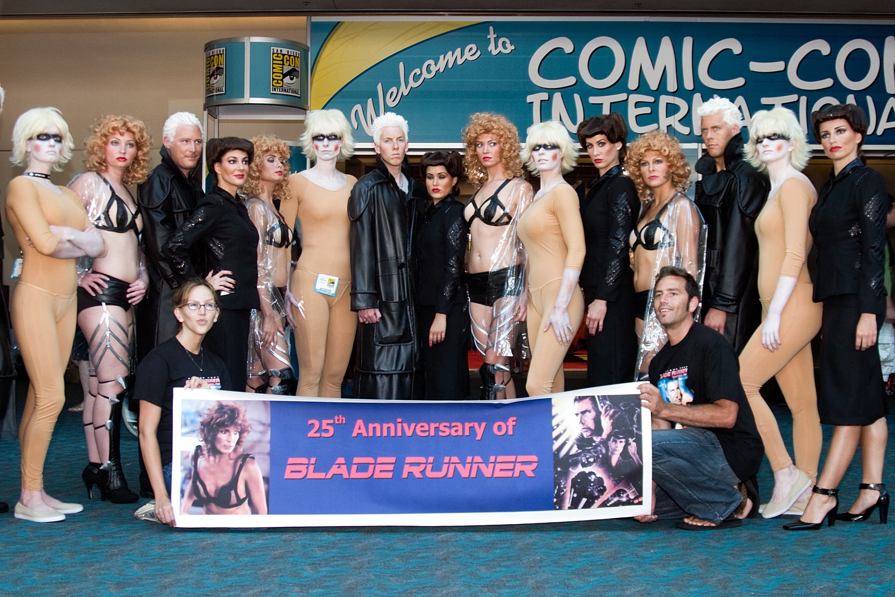 San Diego Comic-Con 2007 day 3.